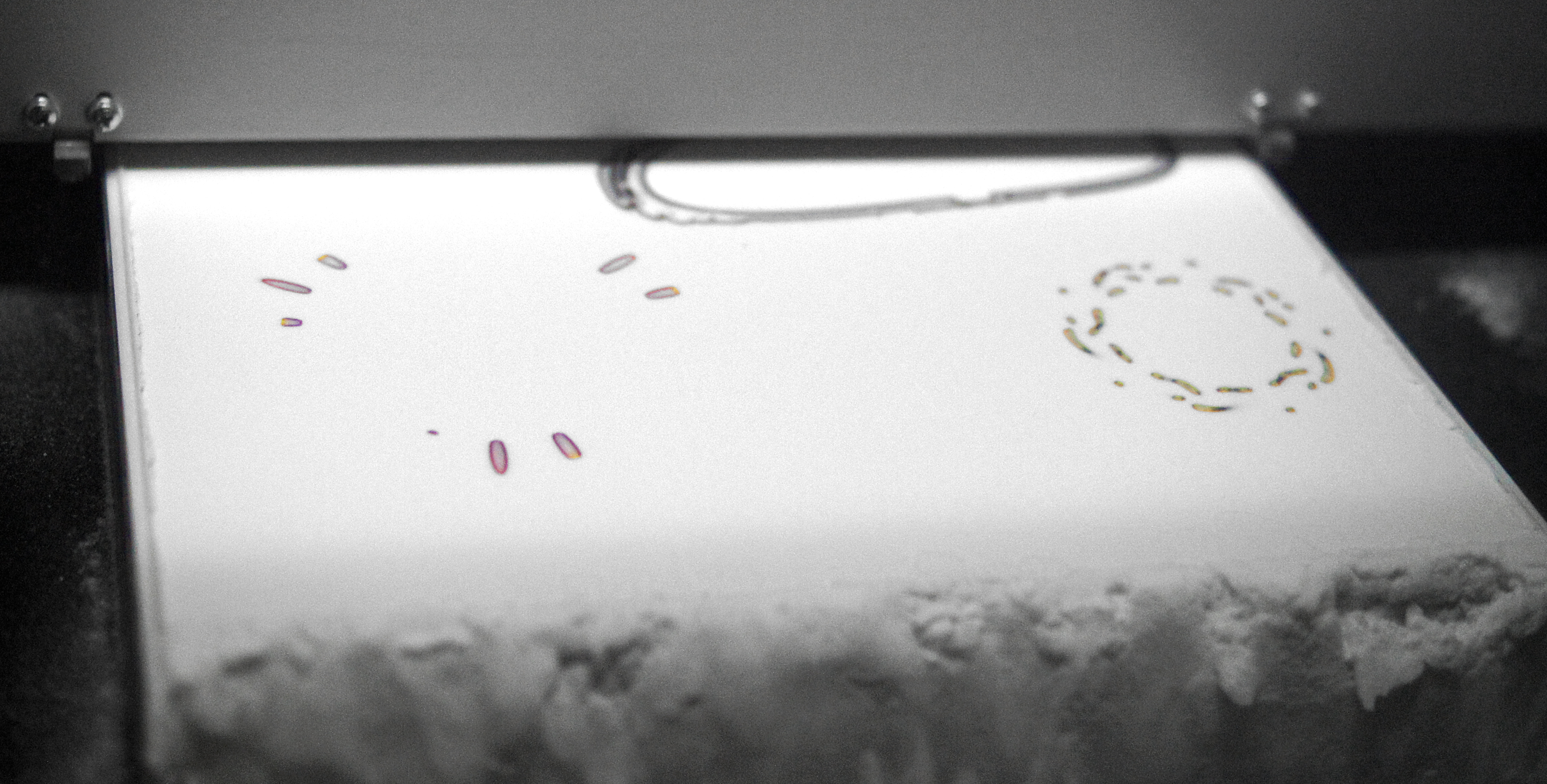 3D printer using the Binder Jetting technology; an inkjet spit bar injects colored binding agent into a powder bed building up a colorful object (here: flowers) layer by layer